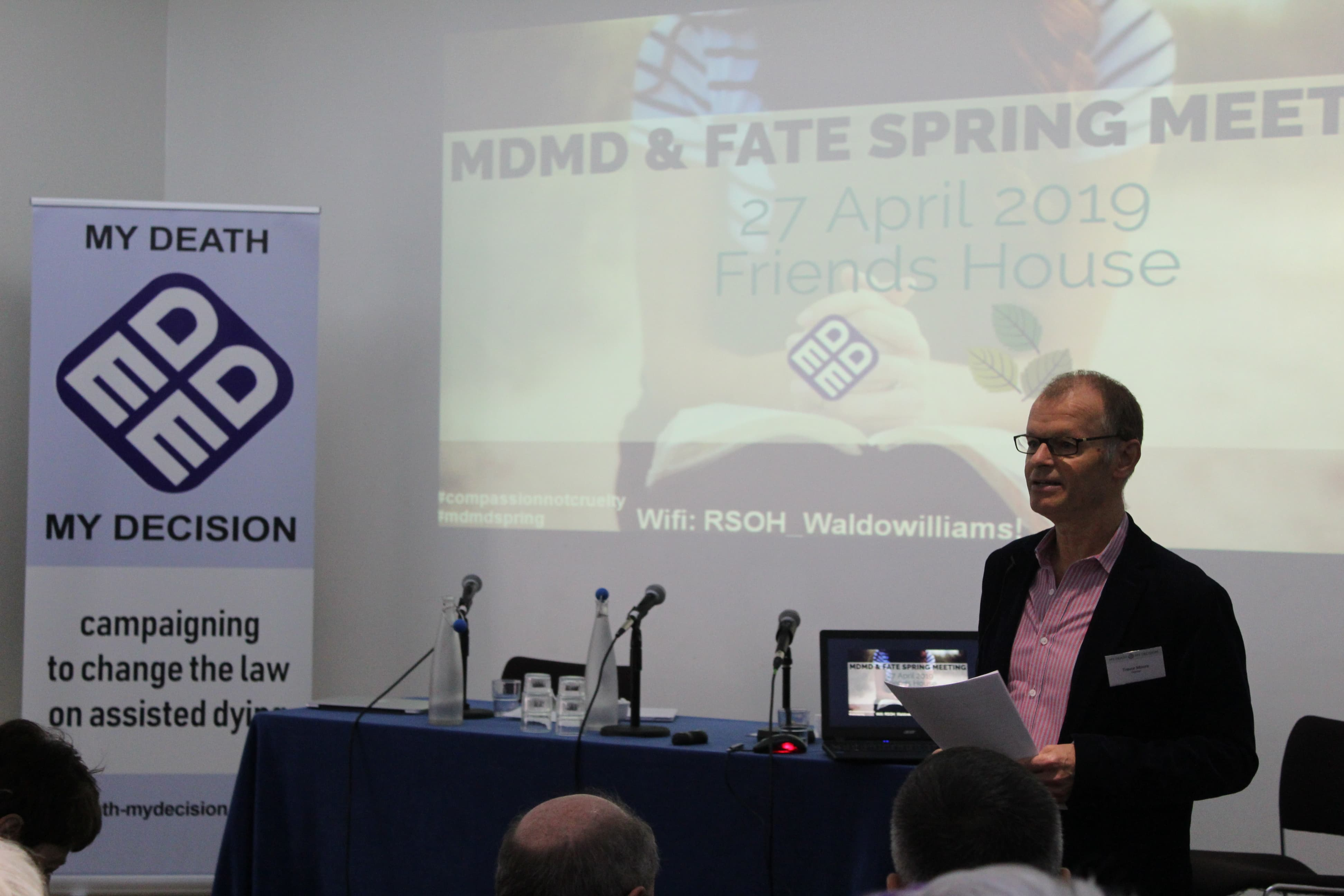 My death my decision and friends at the end faith and assisted dying lecture Trevor Moore presenting